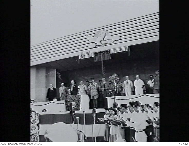 The official party stands as the Japanese choir sings the Song of Hiroshima on the third anniversary of the dropping of the atom bomb. Lieutenant General H. C. H. Robertson, Commander-in-Chief of BCOF is in the centre of the group.